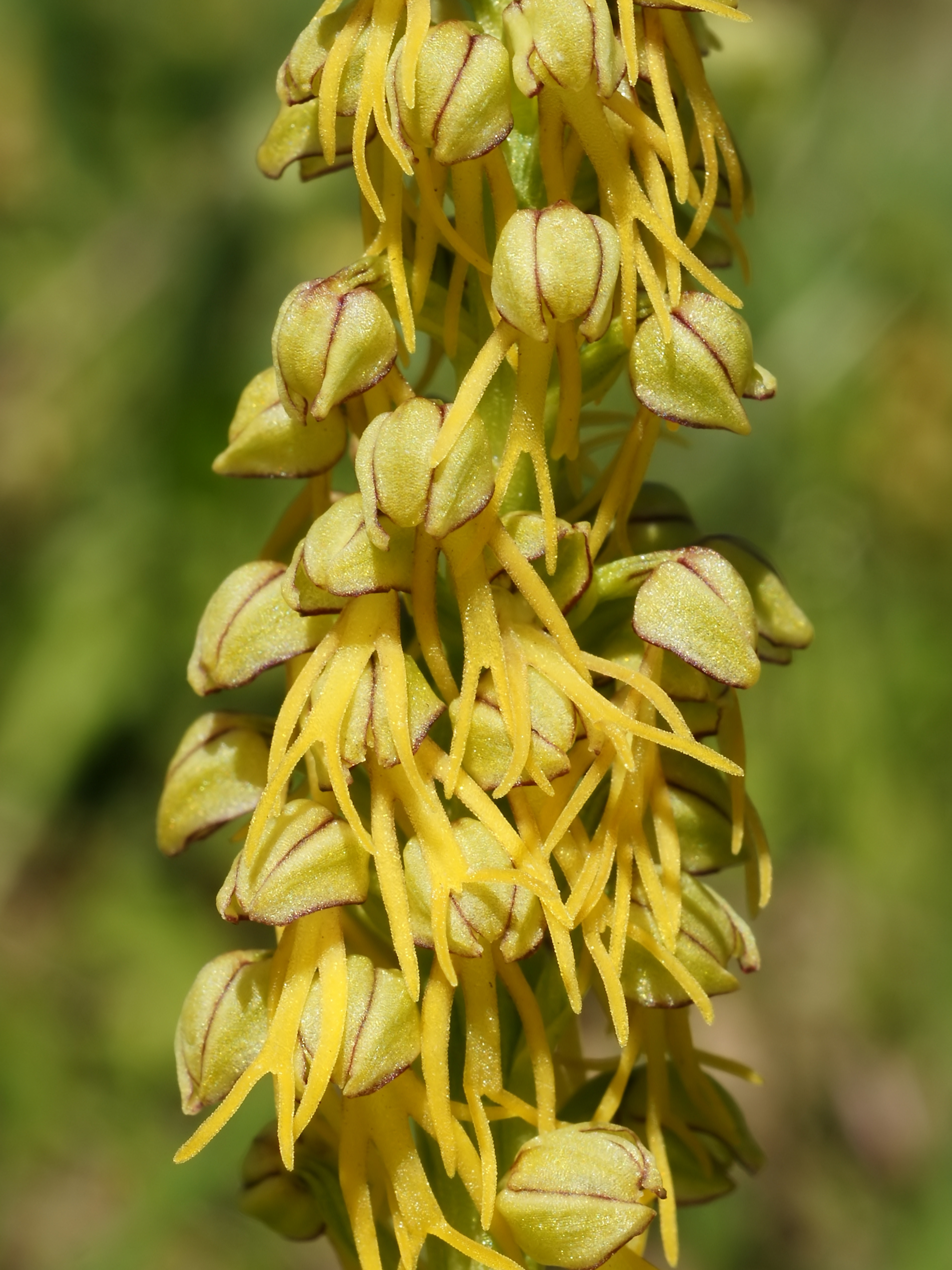 Man orchid flowers. Approximate co-ordinates: plant located within 5 km from Ussassai, Sardinia, Italy.